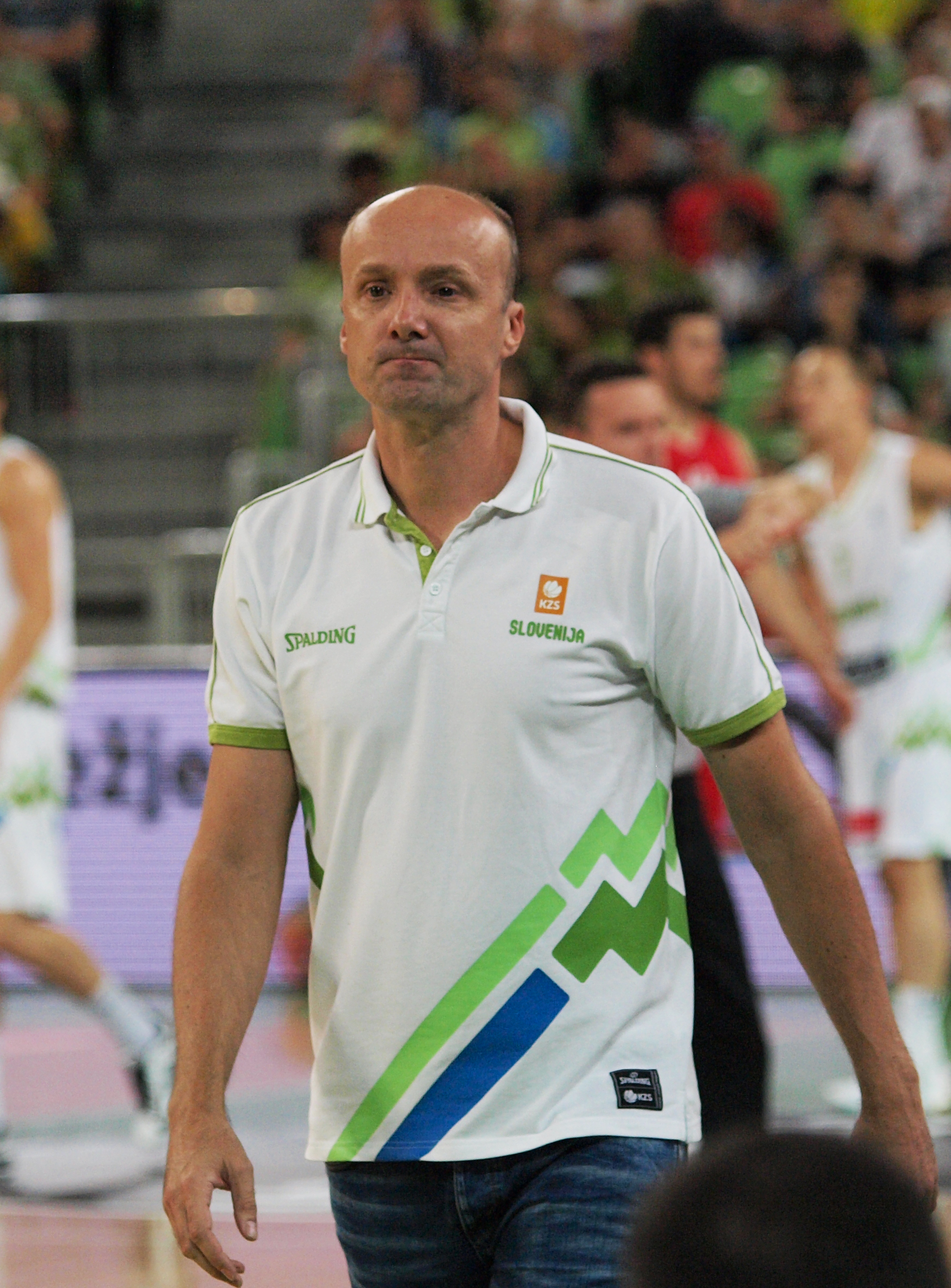 Jure Zdovc coaching Slovenia vs Serbia friendly game. 27. august 2015 in Ljubljana.